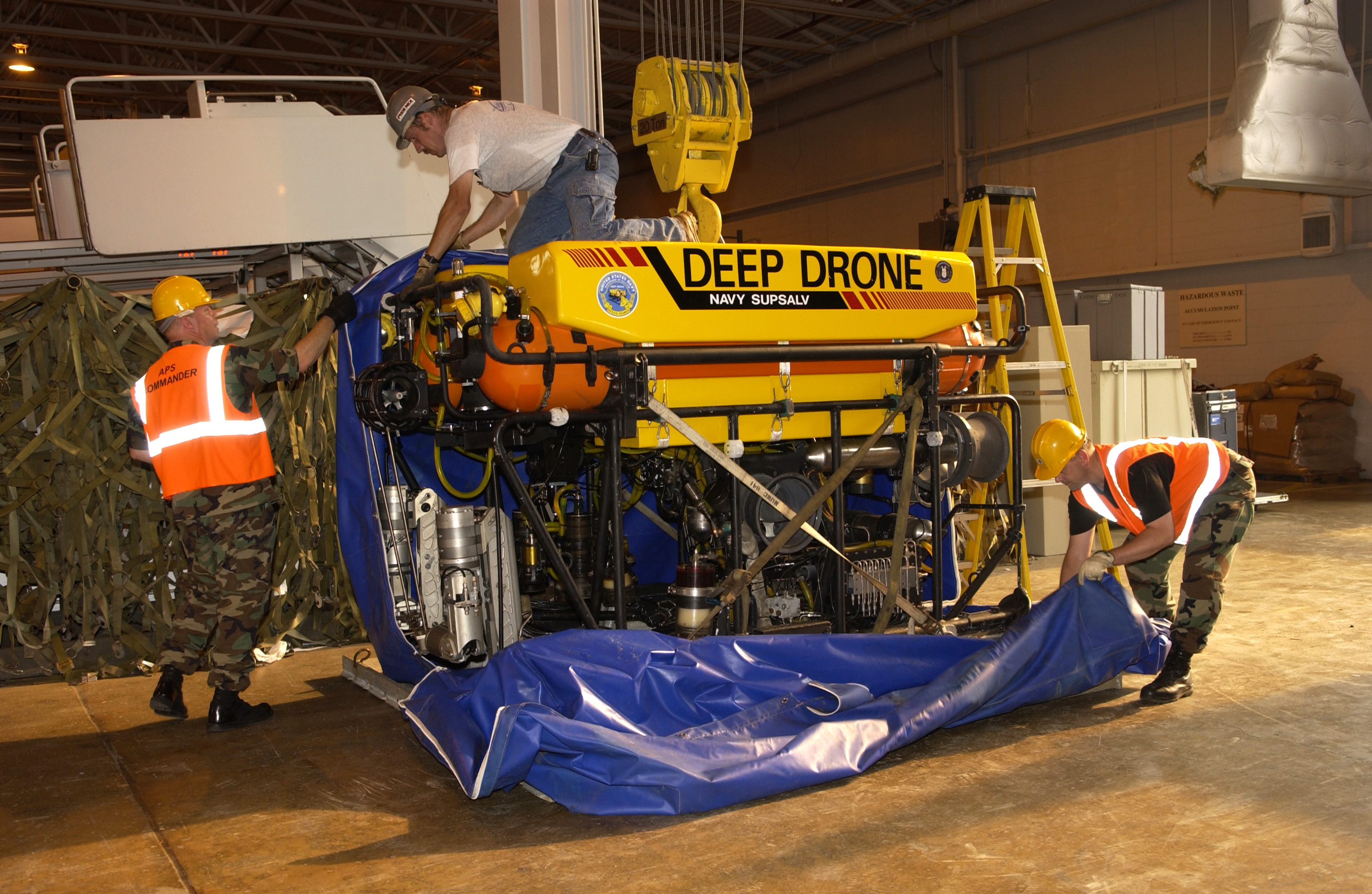 Andrews, Air Force Base (AFB), Md. (August 5, 2005) - Members of the 89th Aerial Port Squadron (APS), Andrews AFB, and 32nd APS Air Reserve Squadron, Pittsburgh, Pa., prepare to load Deep Drone 8000 onto a C-17 Globemaster III from Charleston, South Carolina. The U.S. Navy Supervisor of Salvage and Diving (SUPSALV) is deploying a Deep Drone 8000 Remotely Operated Vehicle (ROV), capable of operating at a depth up to 8000 feet. The Deep Drone 8000 has a target locating sonar and two tool manipulators capable of working with tools and attaching rigging. The Navy and Air Force are transporting Deep Drone in an effort to assist the rescue of seven Russian Sailors trapped on the ocean floor in a mini-submarine off the Kamchatka Peninsula. U.S. Air Force photo by SSgt Christopher J. Matthews (RELEASED)